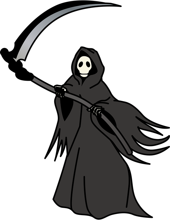 Grim reaper